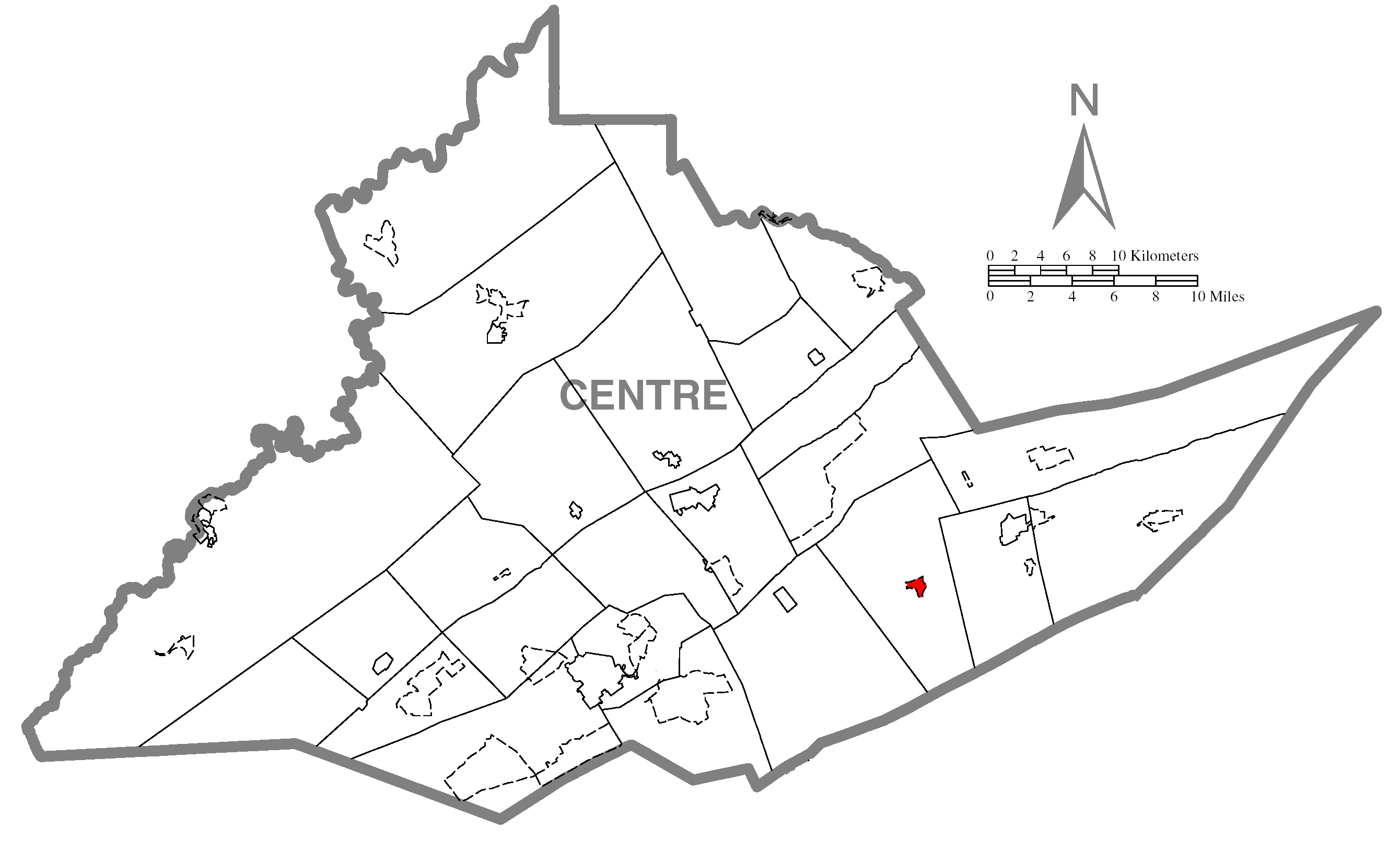 A map of Centre County showing Spring Mills, Pennsylvania (alternate) highlighted on the map.